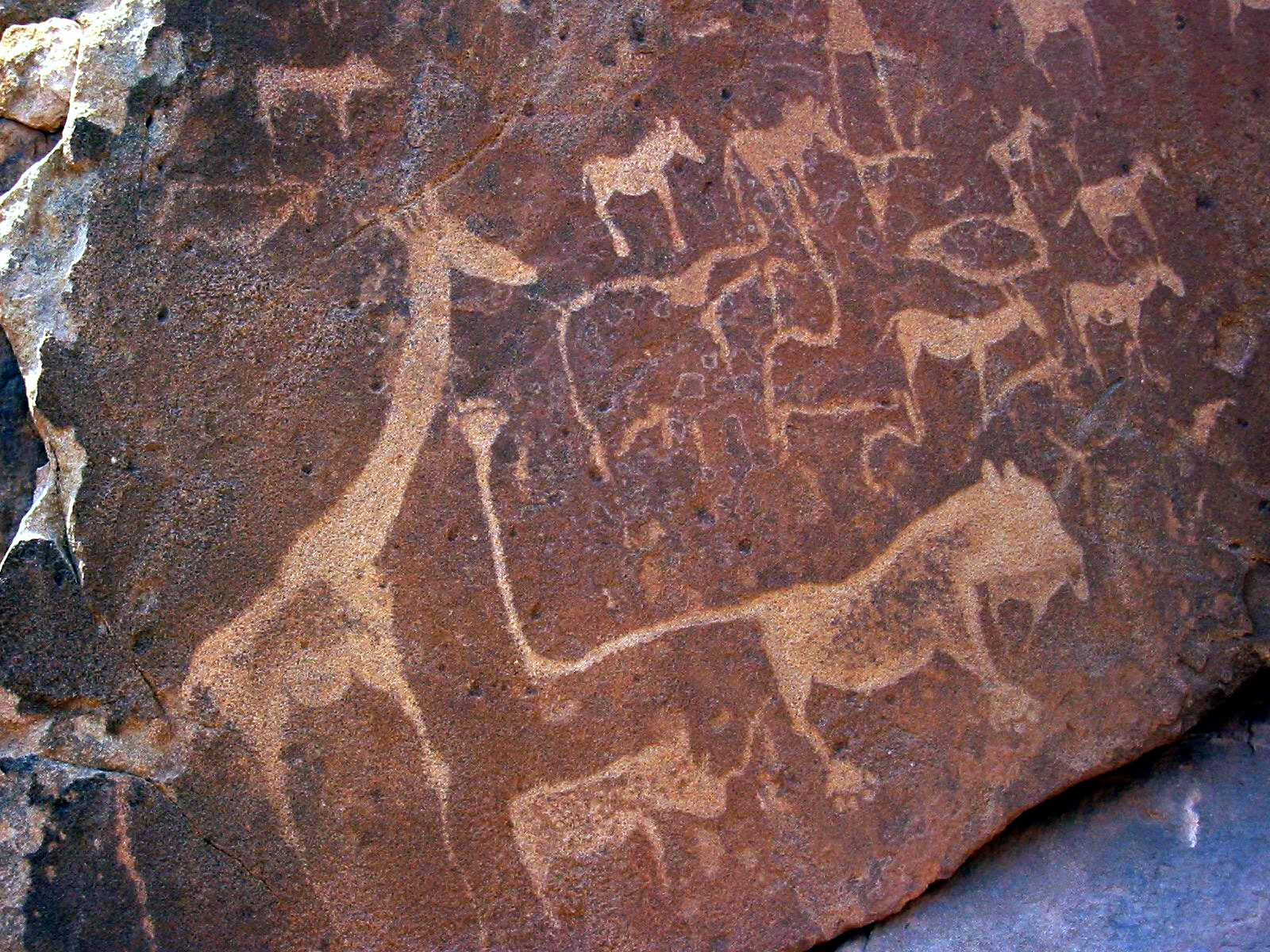 Lion Petroglyph, Twyfelfontein, Namibia